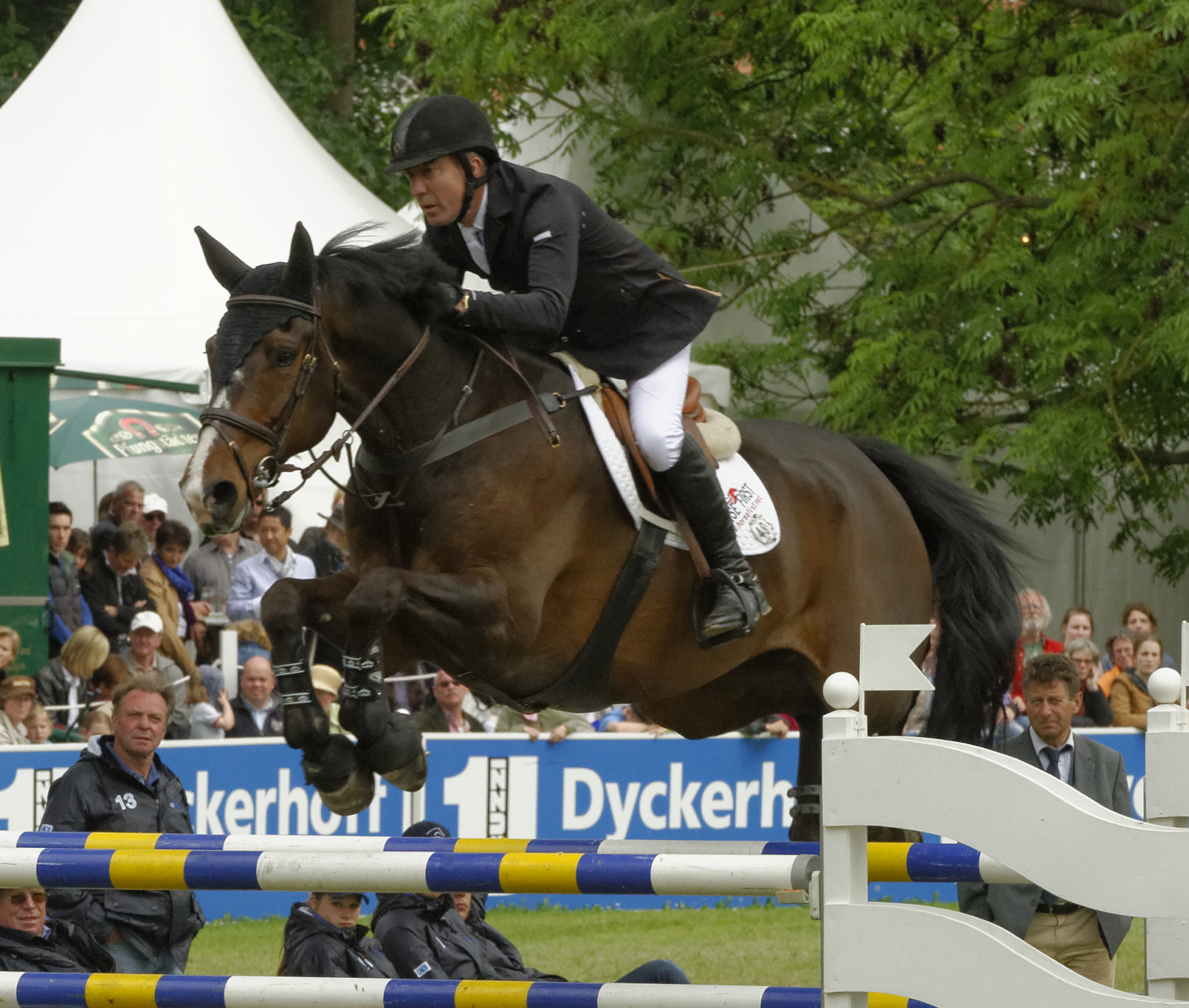 Internationales Pfingstturnier Wiesbaden 2013 The making of this document was supported by the Community-Budget of Wikimedia Germany.